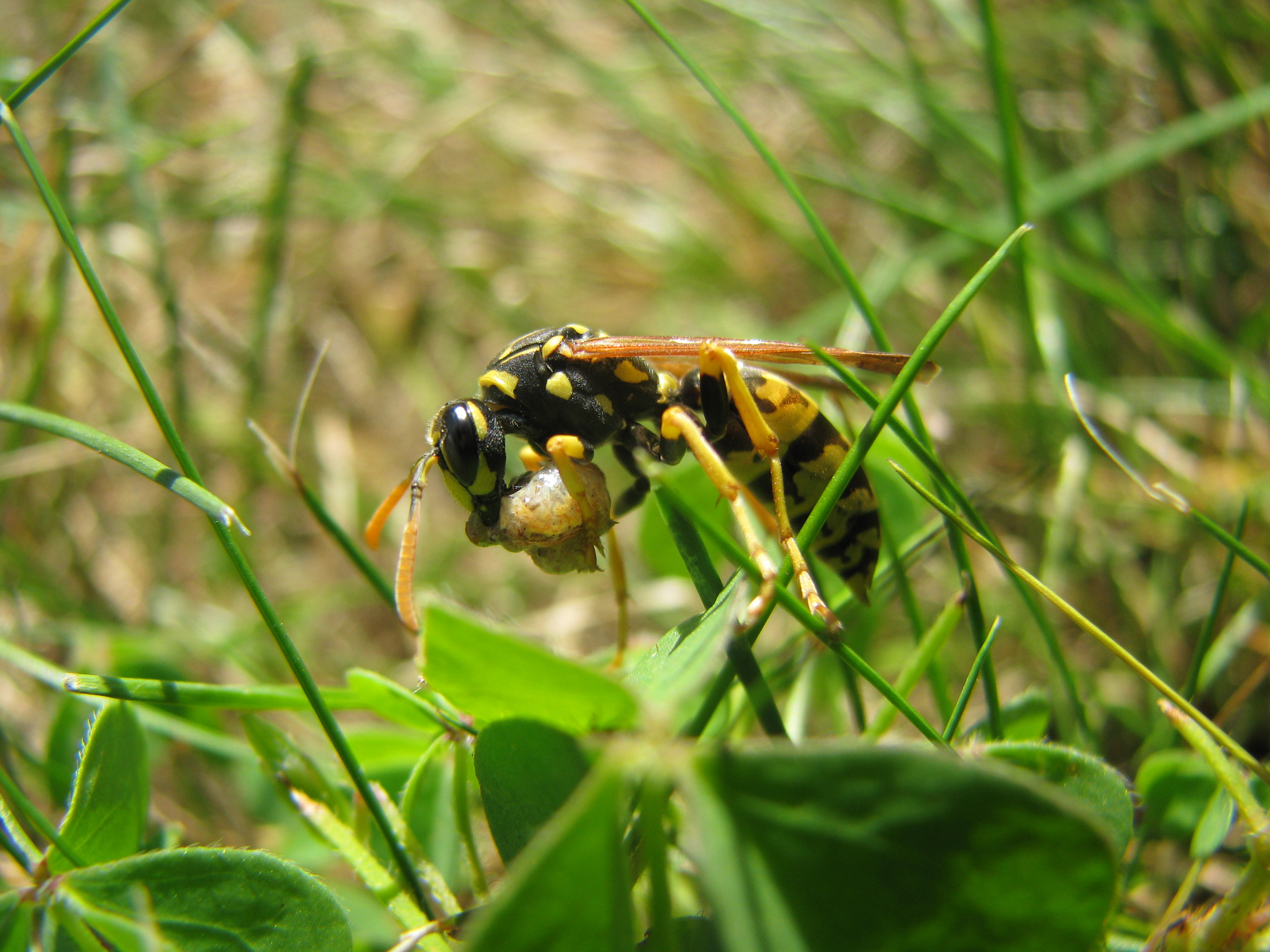 French wasp (a Polistes gallicus ?) eating a caterpillar. Shoot near Bayonne, France, in September 2008. The caterpillar was catch in housse garden grass, while eating grass or clover (White Clover?)